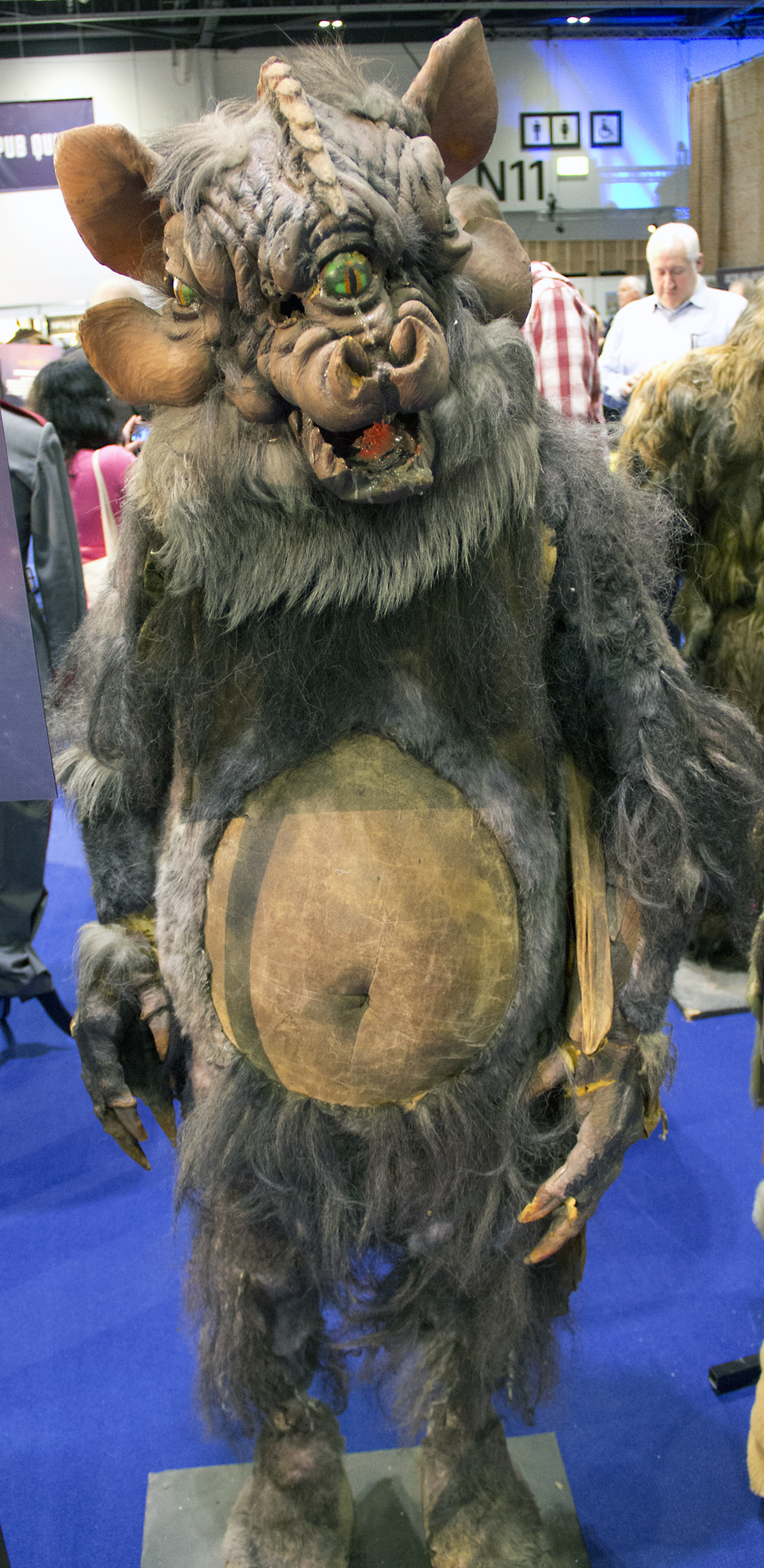 Doctor Who 50th Celebration Doctor Who Experience